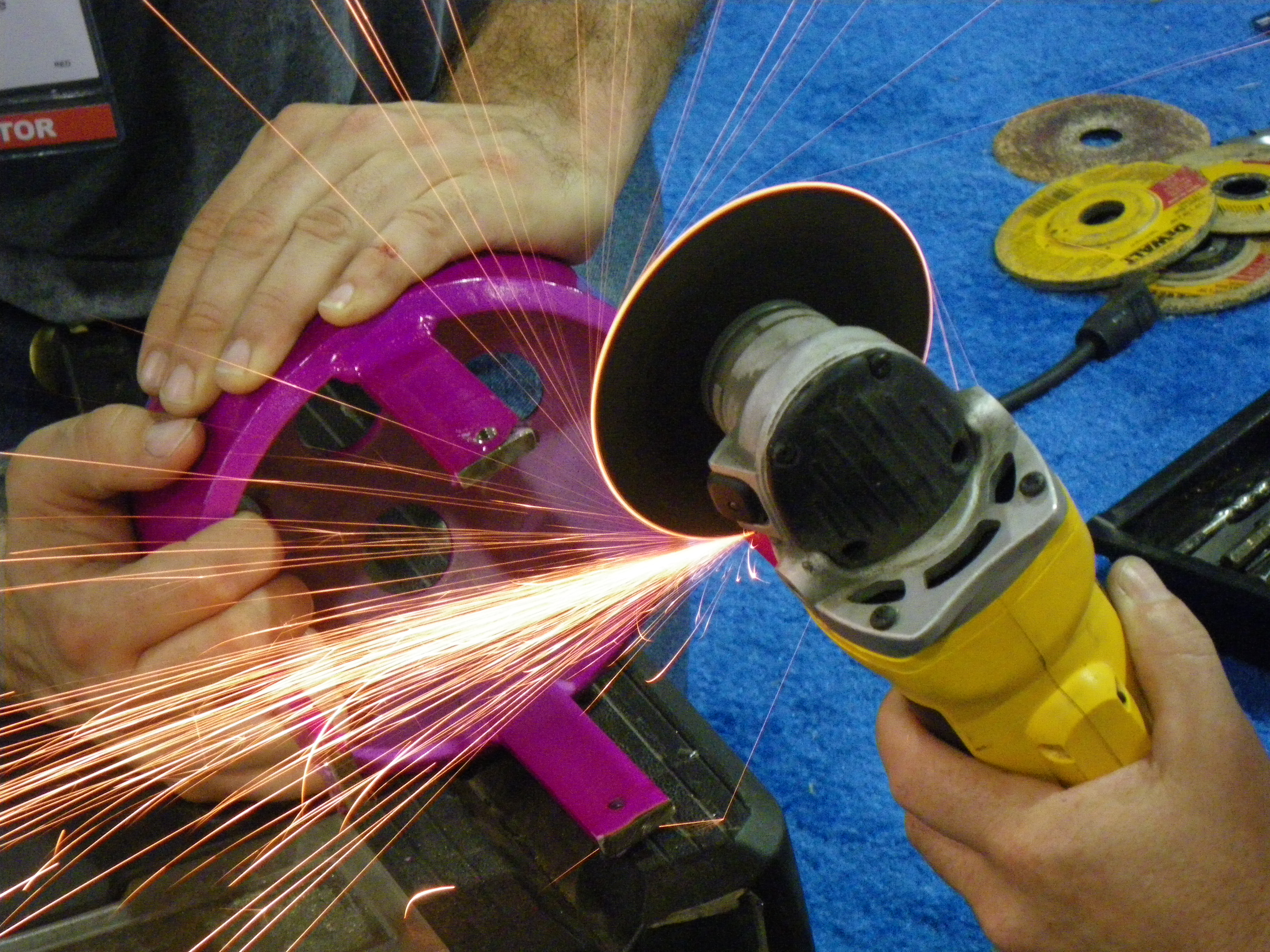 Long exposure photograph showing sparks flying around the rim of a cutoff wheel on an angle grinder, grinding down the tabs on a hydraulophone end cap for an installation at WWA (World Waterparks Association), in Orlando, October 2009.